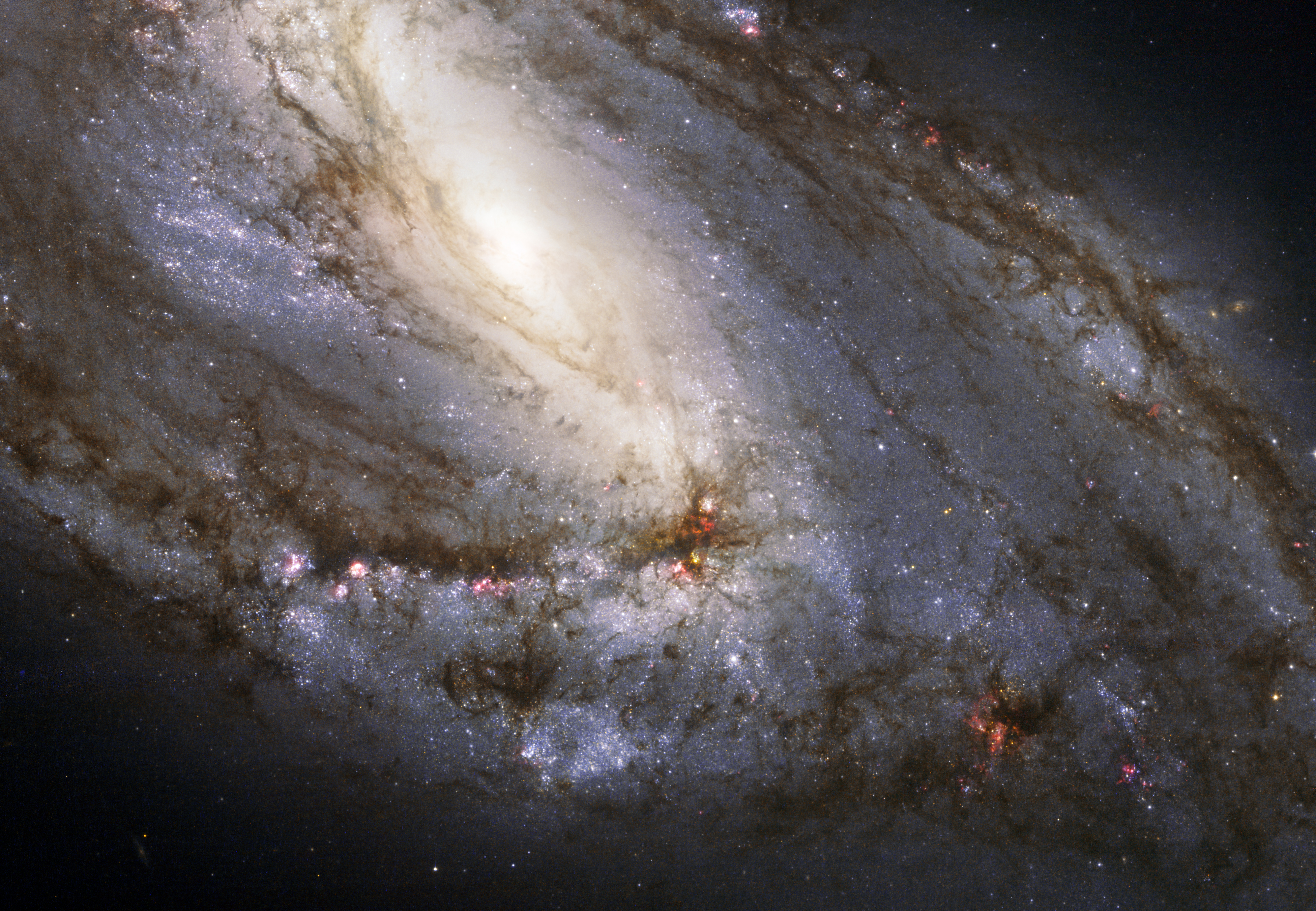 Hubble has snapped this view of Messier 66, the largest "player" of the Leo Triplet, and a galaxy with an unusual anatomy: it displays asymmetric spiral arms and an apparently displaced core. The peculiar anatomy is most likely caused by the gravitational pull of the other two members of the trio. The unusual spiral galaxy, Messier 66, is located at a distance of about 35 million light-years in the constellation of Leo. Together with Messier 65 and NGC 3628, Messier 66 is the member of the Leo Triplet, a trio of interacting spiral galaxies, part of the larger Messier 66 group. Messier 66 wins in size over its fellow triplets — it is about 100 000 light-years across. This is a composite of images obtained through the following filters: 814W (near infrared), 555W (green) and H-alpha (showing the glowing of the hydrogen gas). They have been combined so to represent the real colors of the galaxy.